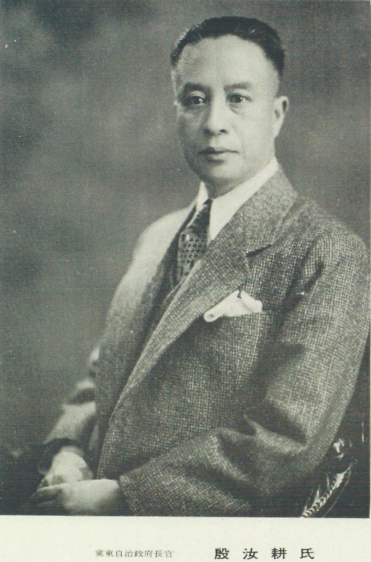 Yin Rugeng (Yin Ju-keng) (1885 - 1947)